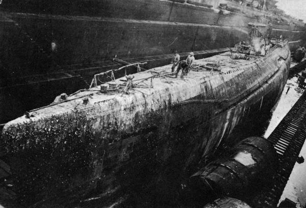 Imperial Japanese Navy, I-351-class submarine, I-352 at IHI Kure Shipyard